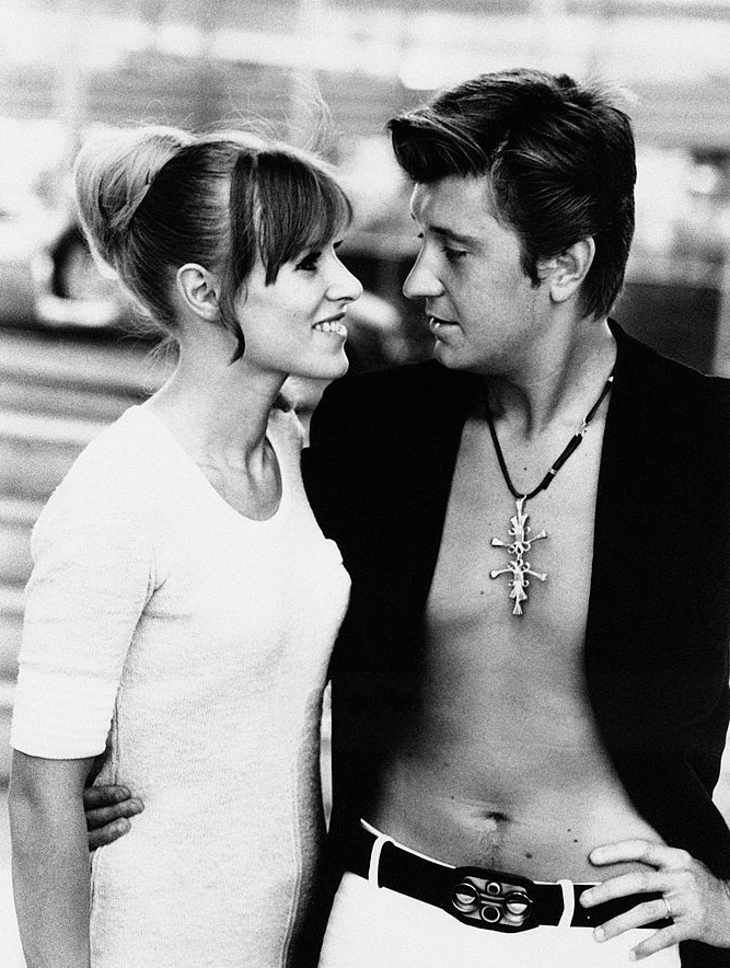 Italian singer Bobby Solo (Roberto Satti) standing with his wife Sophie. Rome, 1970